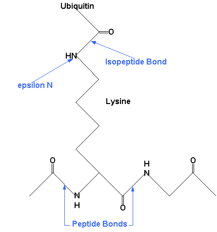 Isopeptide bond